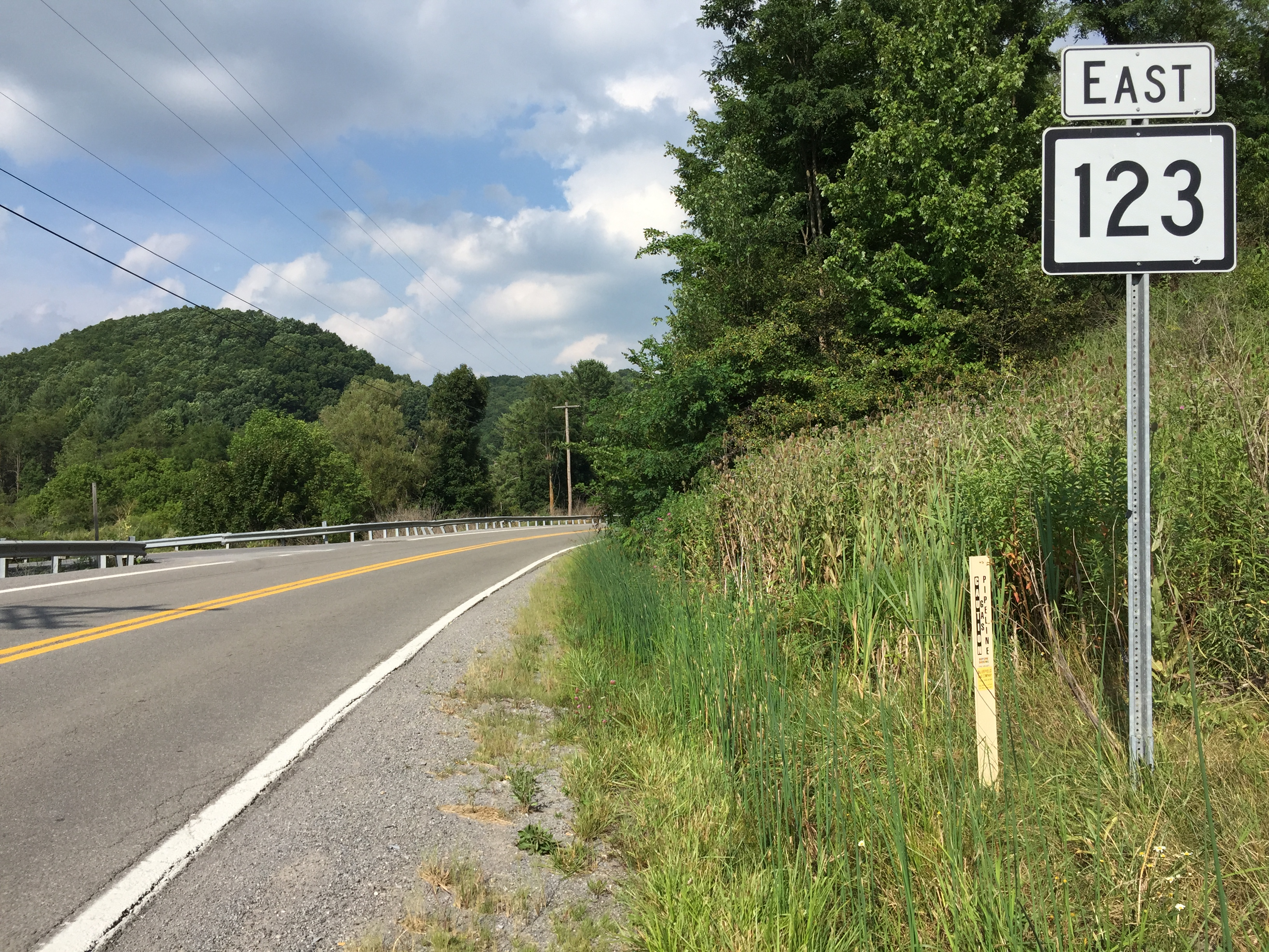 View east along West Virginia State Route 123 (Airport Road) at U.S. Route 52 (Coal Heritage Road) in Brush Fork, Mercer County, West Virginia